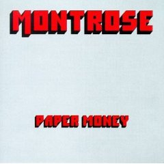 Cover of the Montrose album "Paper Money". As the cover only consists of the words "MONTROSE" and "PAPER MONEY", it is simple enough not to be copyrightable.